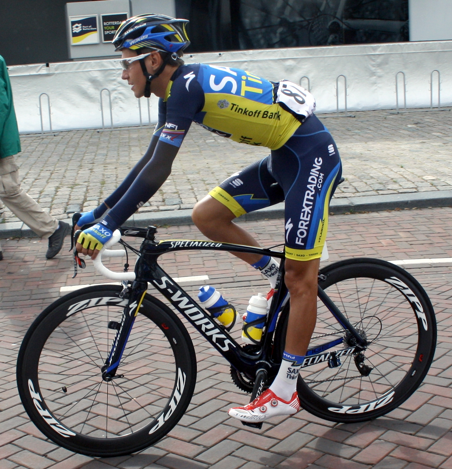 Pawel Poljanski before the start of stage 2 of the World Ports Classic 2013